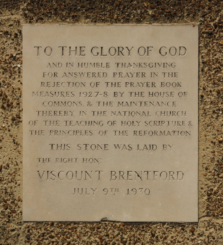 St Andrew's parish church, Felixstowe, Suffolk: plaque below the wsouthwest window of the navbe, commemorating the House of Commons' rejection of the 1928 Prayer Book.